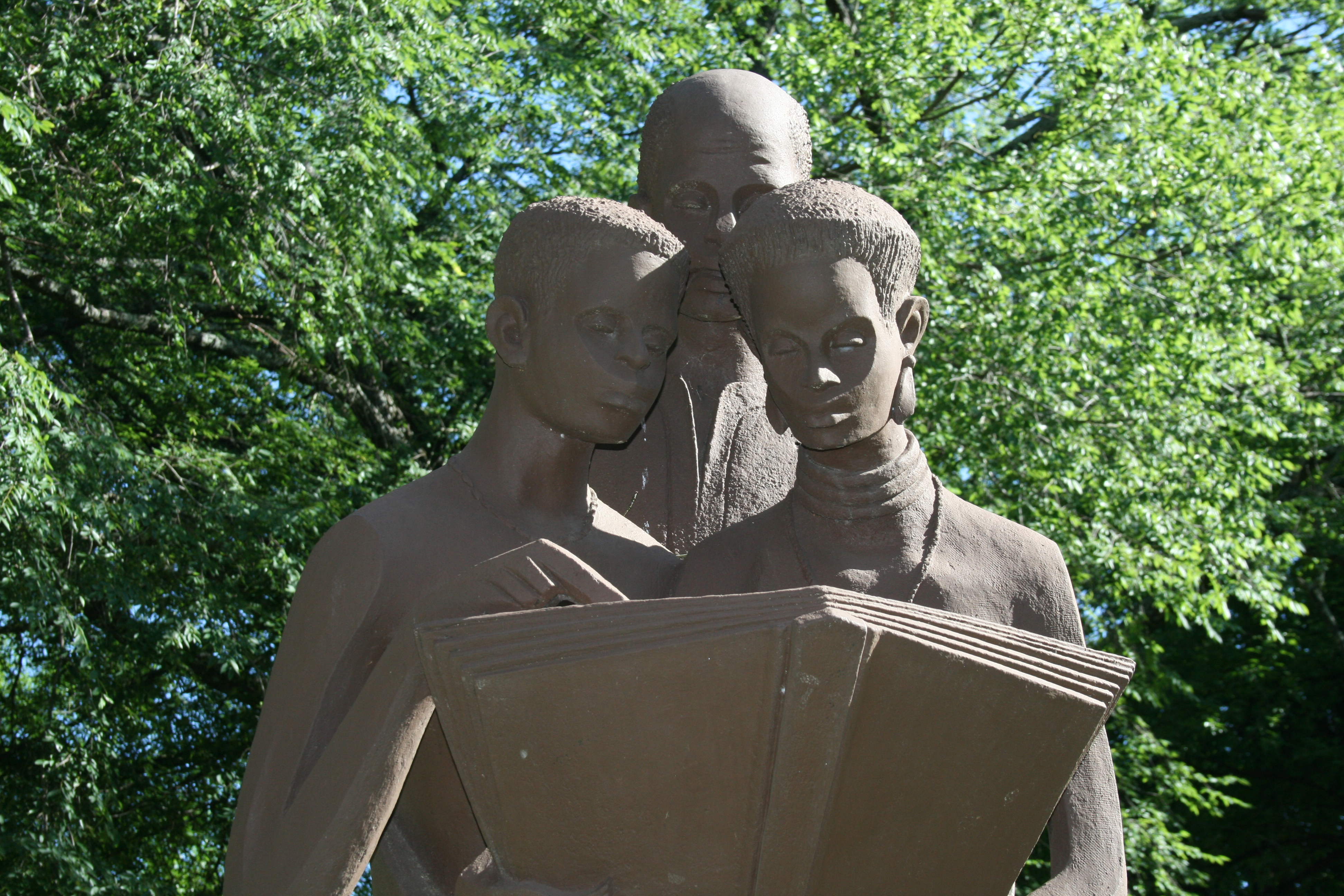 Morris Brown College UNCF Statue